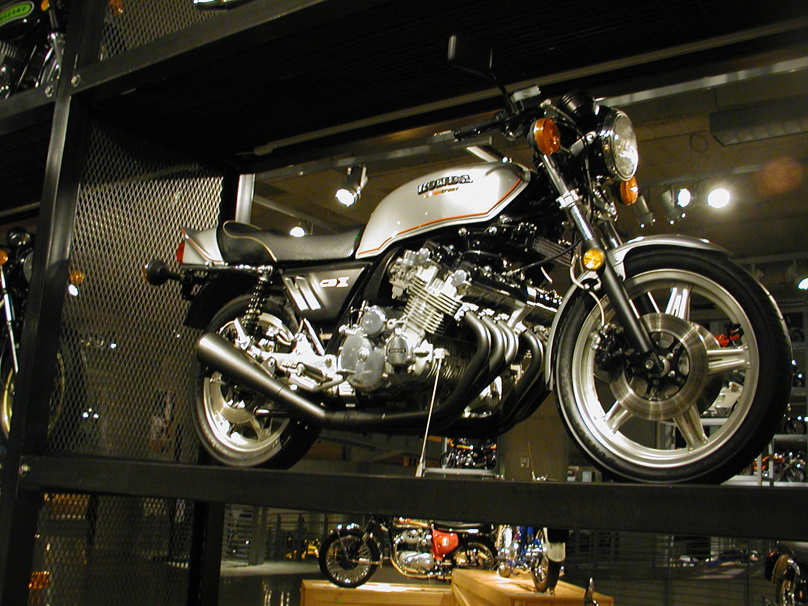 Barber Motorcycle Museum - Oct 22 2006 (115) Honda CBX